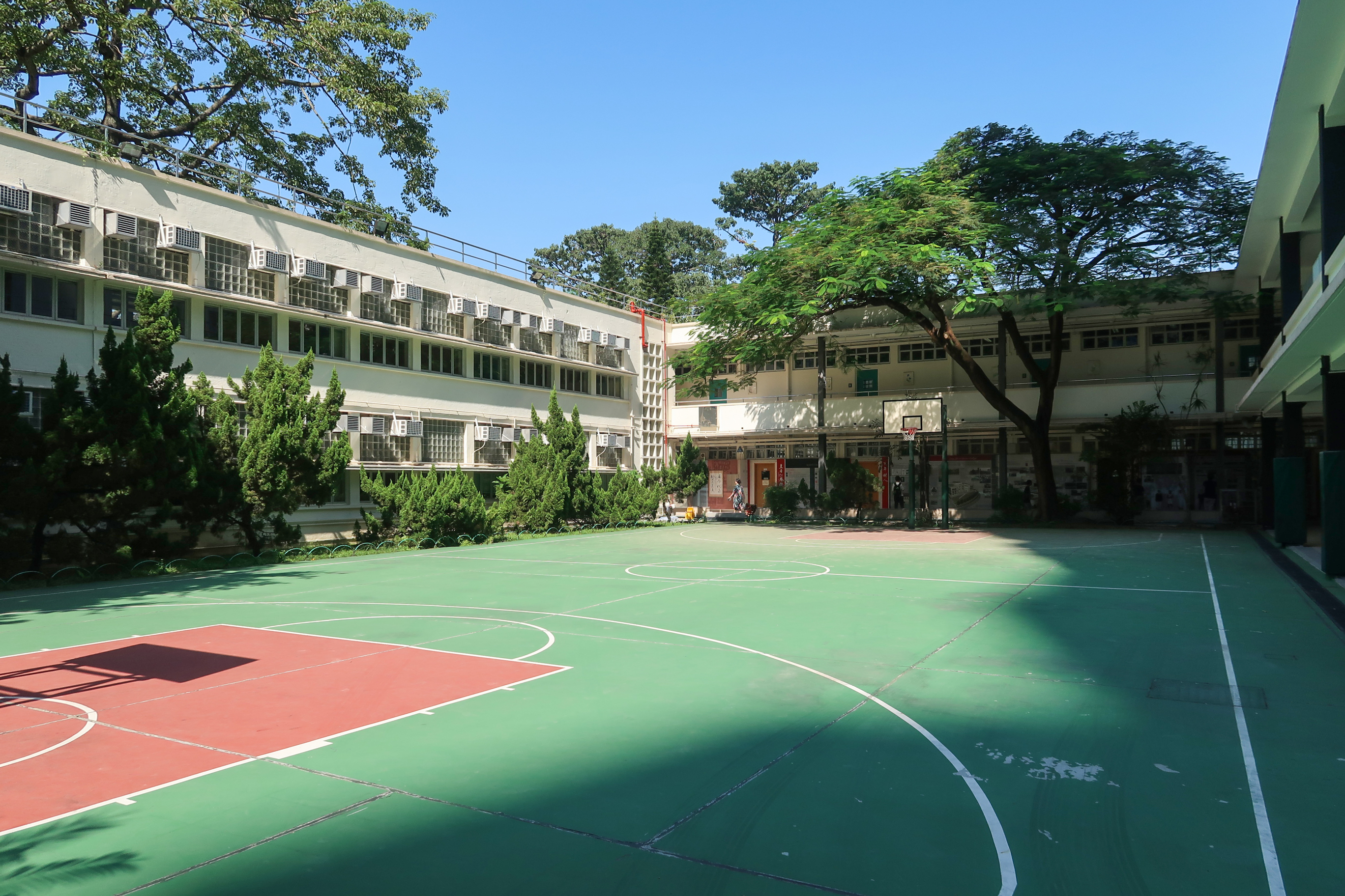 Queen's College Basketball Court